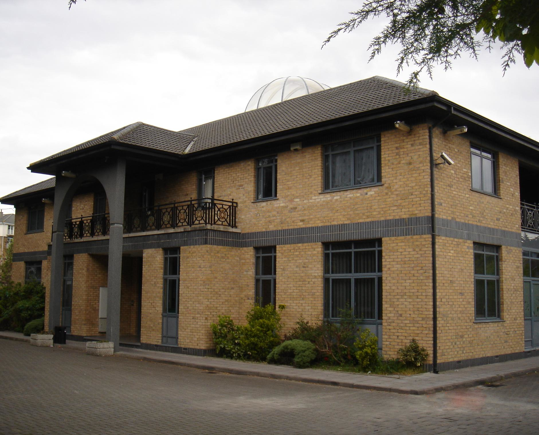 Ahlul Bayt Islamic Centre Dublin, taken on May 1, 2006.